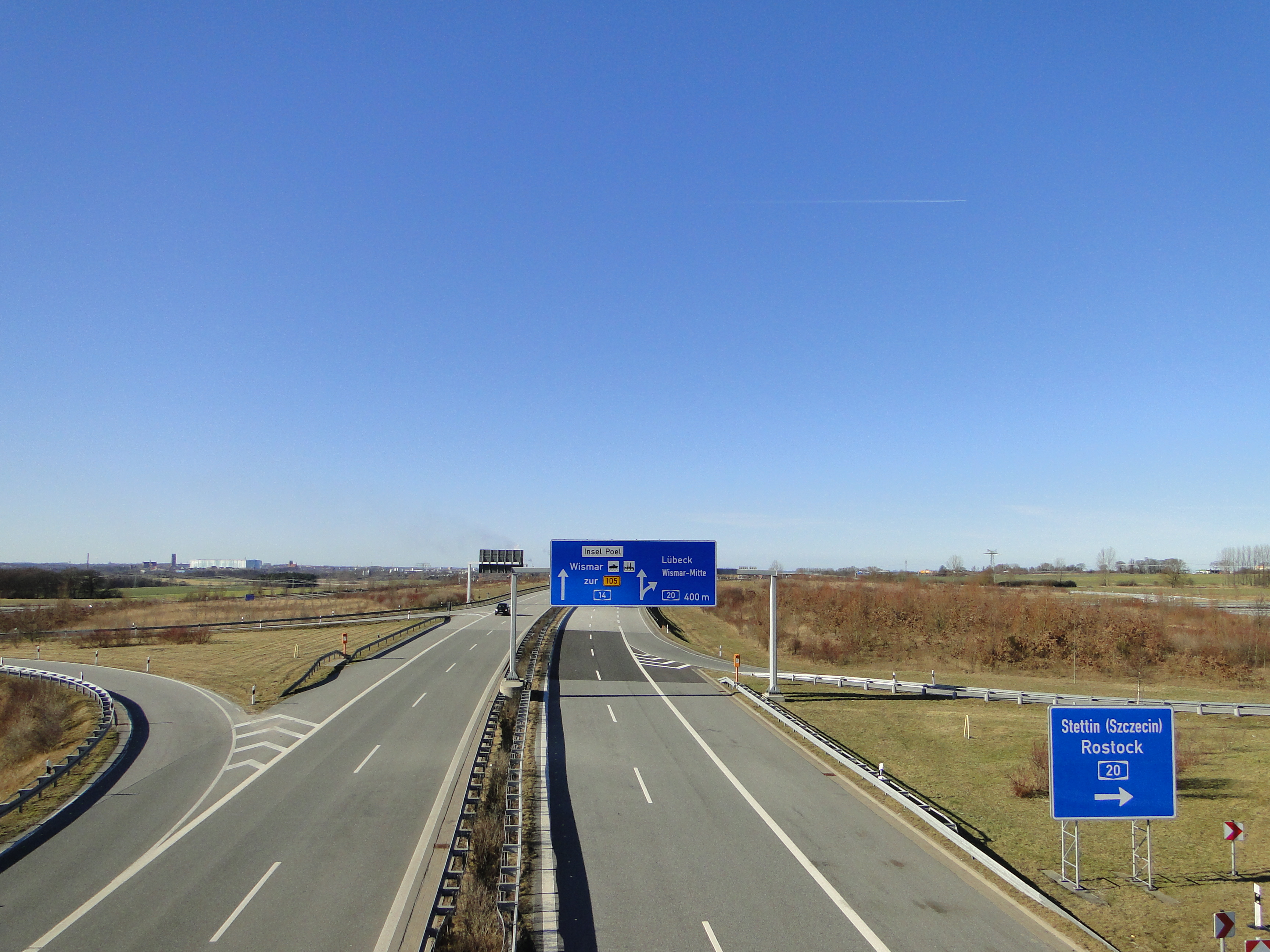 Interchange Autobahnkreuz Wismar A 14/A 20 in/near Greese/Kritzow, district Nordwestmecklenburg, Mecklenburg-Vorpommern, Germany